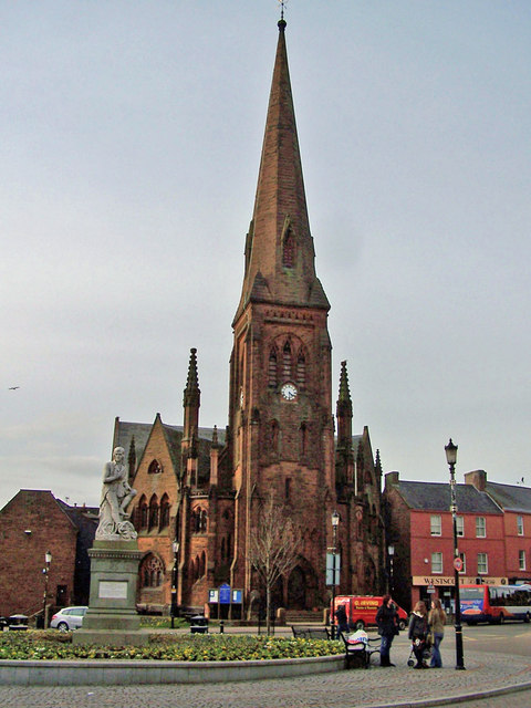 Greyfriars Church, Dumfries, completed in 1868. It is the Burgh Church of Dumfries and contains the Provost's throne and Baillies' chairs. The statue on the left is of Robert Burns.